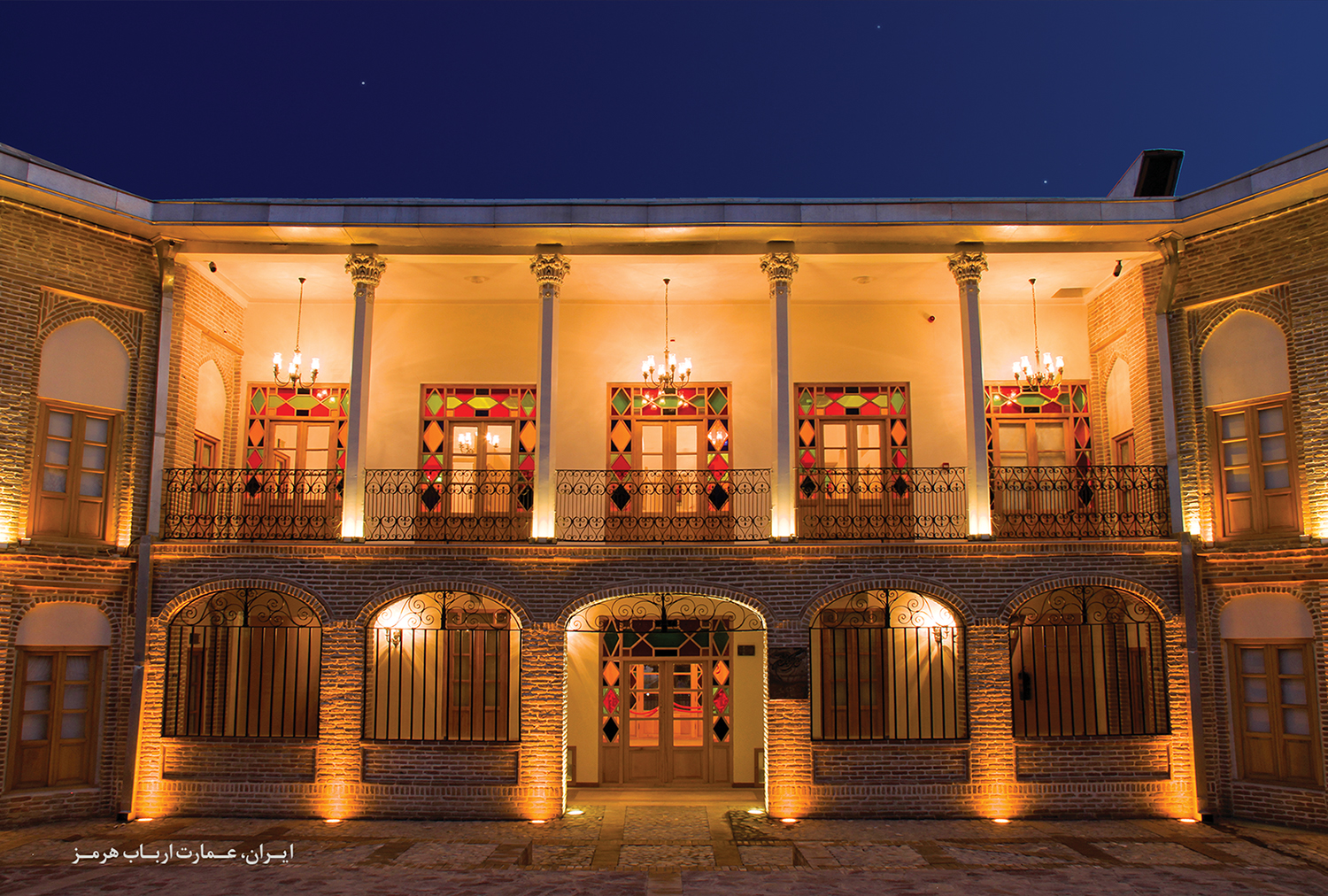 Arab Hormuz Mansion